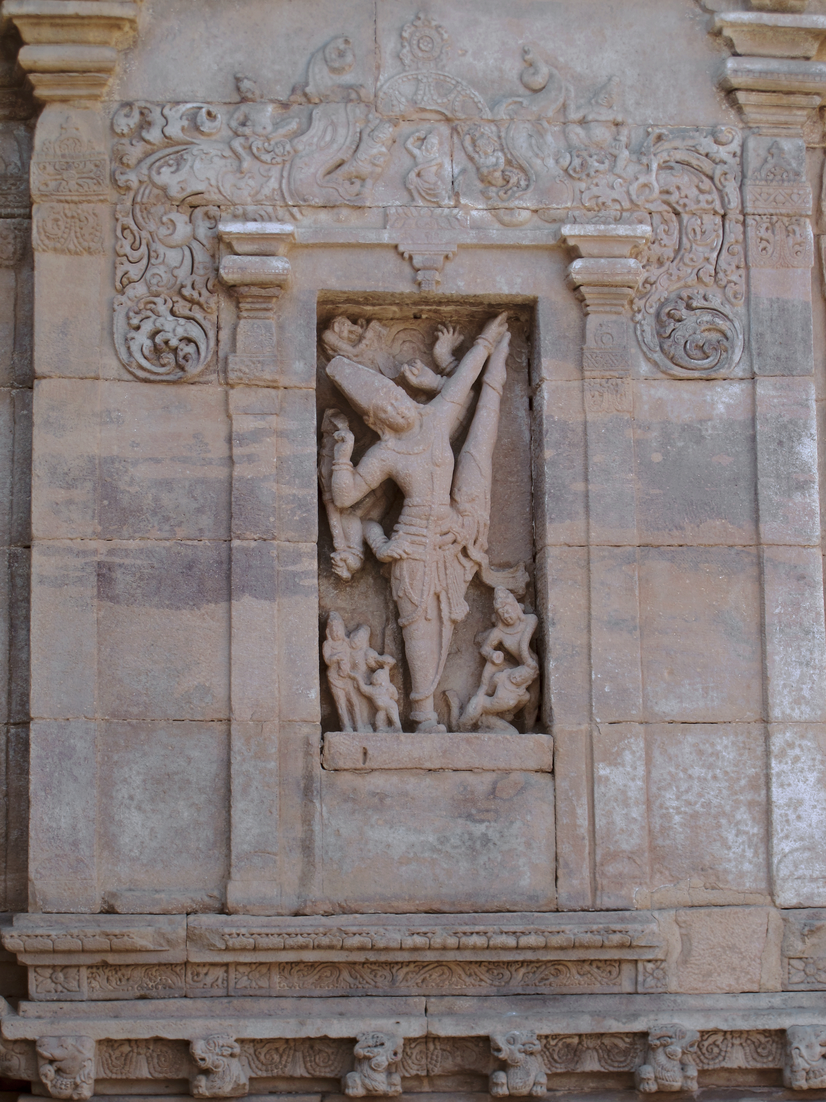 Pattadakal Virupaksa. Mandapa, east wall, north side. Trivikrama